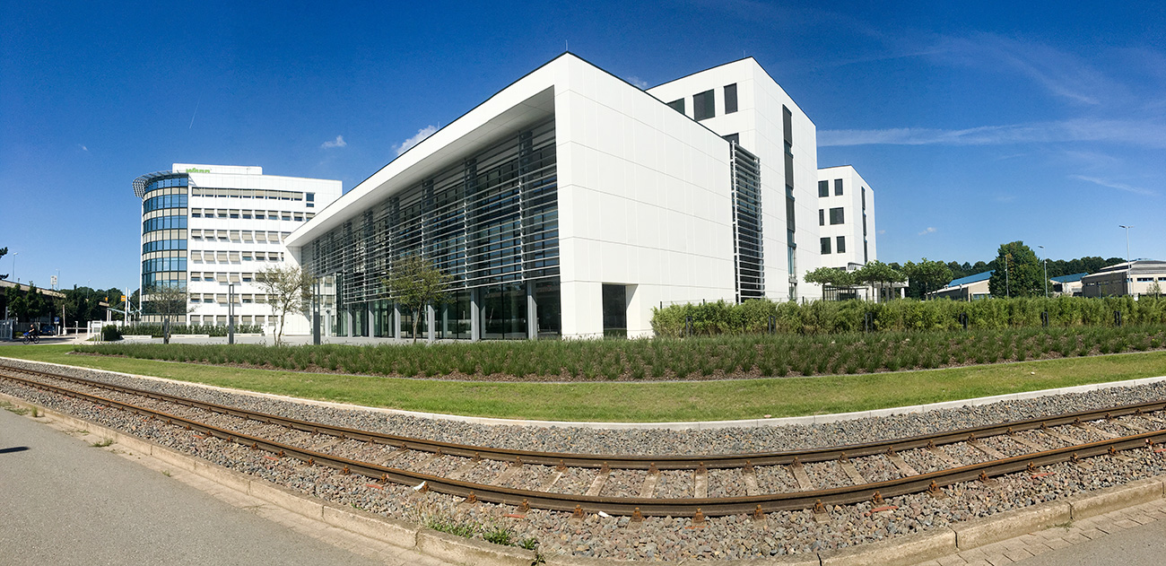 WAGO Communication Center in Minden.